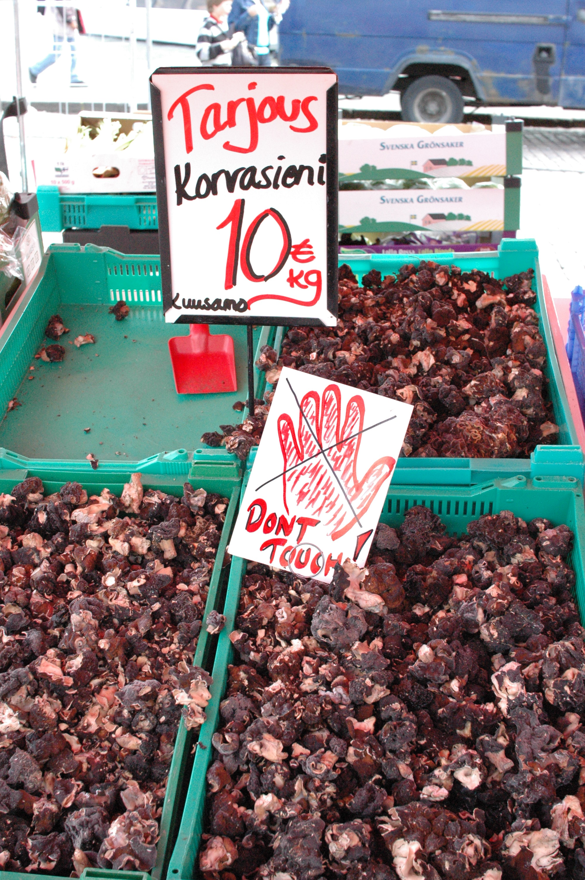 False morel fungi (Gyromitra esculenta) for sale at the Helsinki market square. Though deadly poisonous unless properly parboiled, these mushrooms are considered a local delicacy, and Finnish law permits their sale fresh as long they are accompanied by conspicuous warnings and government-approved preparation instructions. The purpose of the big "Don't touch!" sign is presumably to make sure tourists won't try to grab samples to taste.